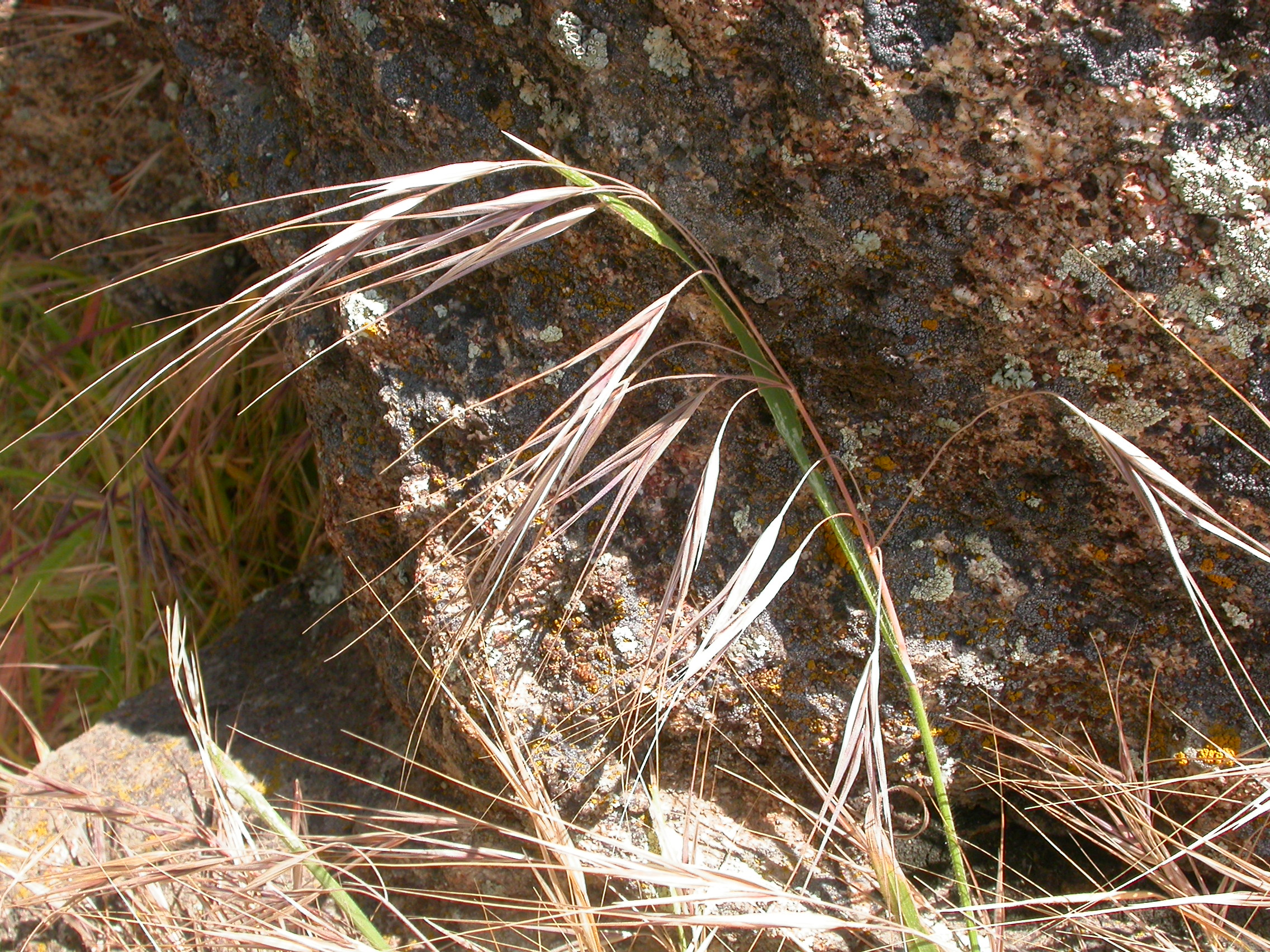 The spikelets comprise lemmas that are typically over 2 cm long